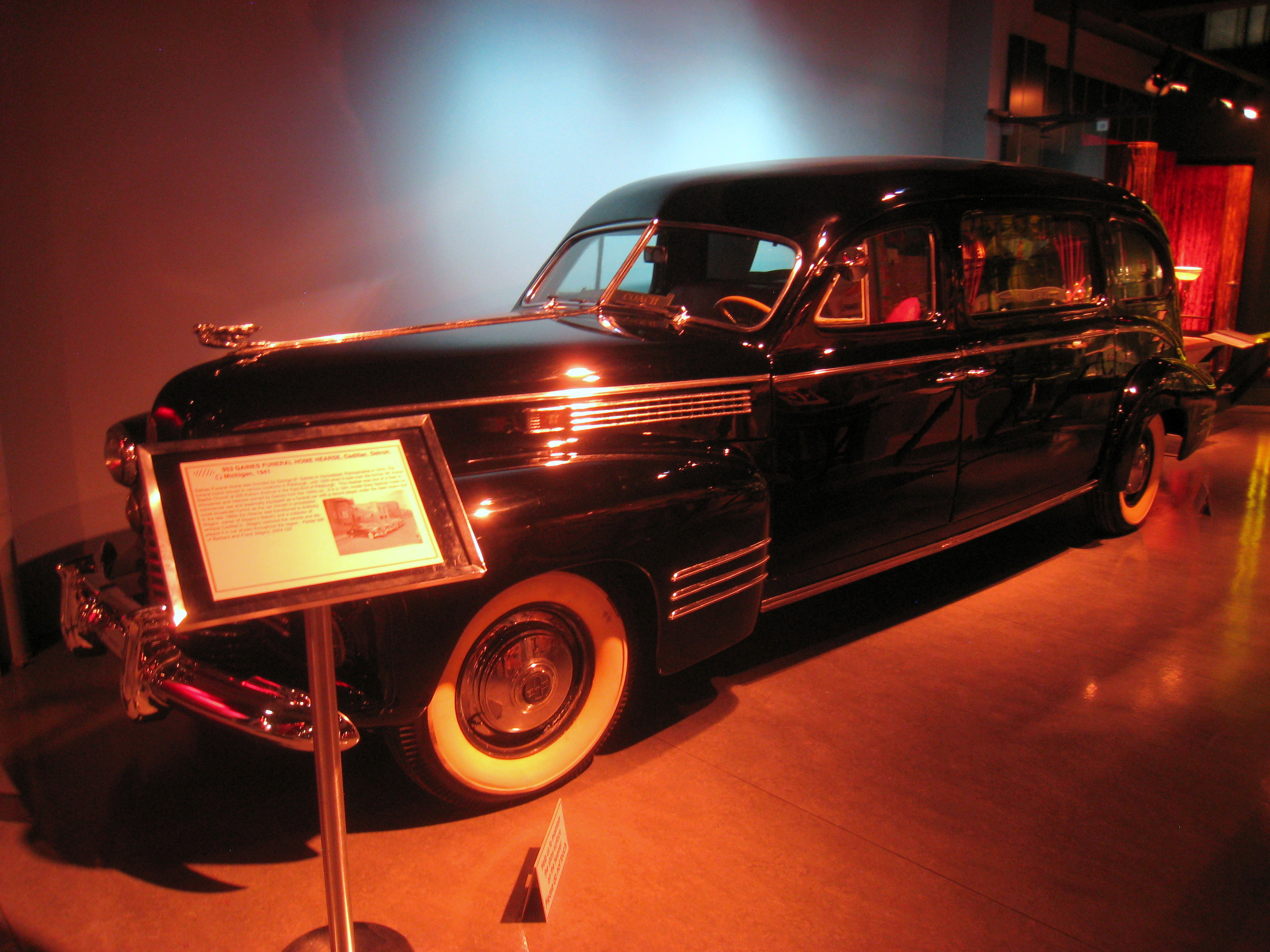 Exhibit in the Senator John Heinz History Center, 1212 Smallman Street, Pittsburgh, Pennsylvania, USA. There were no restrictions on photography in the museum collections.